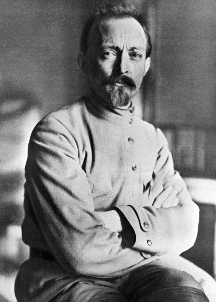 “Dzerzhinsky”. Chairman of Vecheka (All-Russian Extraordinary Commission to Combat Counter-revolution and Sabotage)-OGPU (Unified State Political Administration) Felix Dzerzhinsky (1877-1926).